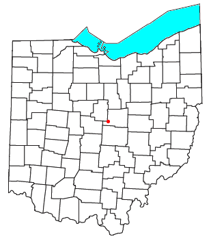 Locator map of the unincorporated community of Mount Liberty in Knox County, Ohio, United States.